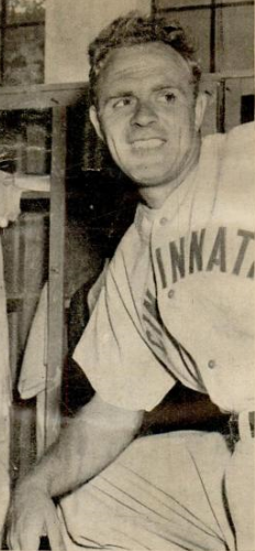 An image of Major League Baseball pitcher Johnny Vander Meer.